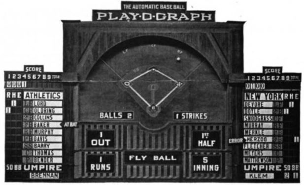 A "Baseball Play-o-Graph", which gave near-real-time representations of the action in professional baseball games.